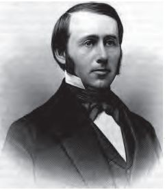 From: *Eells, Myron. Biography of Rev. G. H. Atkinson. F.W. Baltes, 1893. Portrait of younger George H. Atkinson